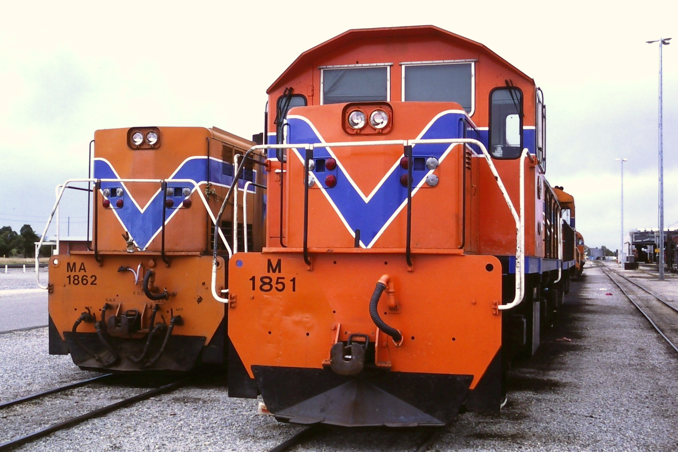 A pair of near-sister Western Australian Government Railways (WAGR) M class narrow gauge diesel-hydraulic shunting locomotives at Forrestfield Yard: at left is the hood end of MA1862, and at right is the cab end of M1851. Both are in Westrail orange and blue livery; the main difference between them is that MA1862 is fitted with a Caterpillar engine, and M1851 has a Cummins engine.Kodachrome slide converted by Kaiser Baas Photo Maker Pro into a digital image.